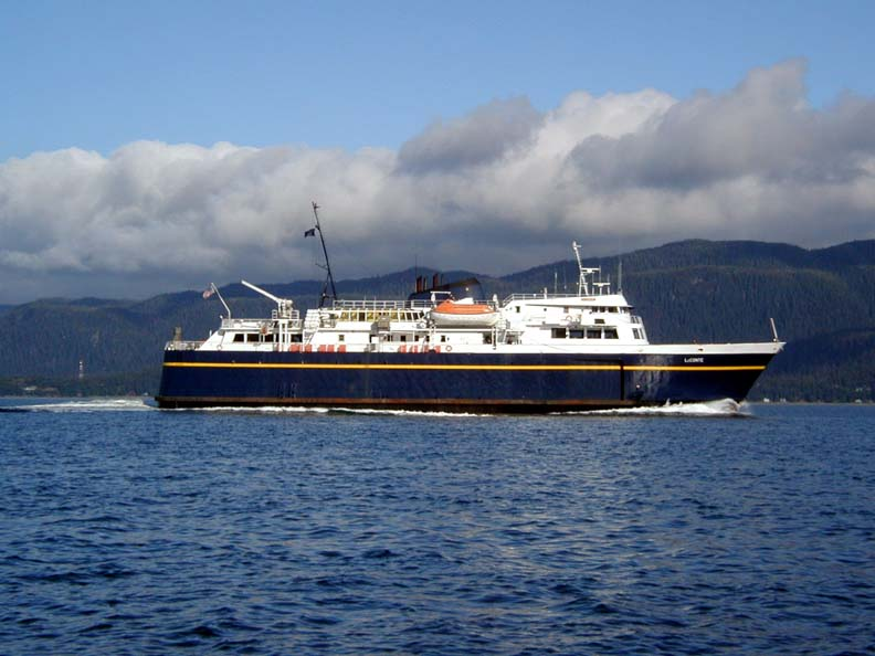 AMHS Le Conte ferry actually heading into Auke Bay